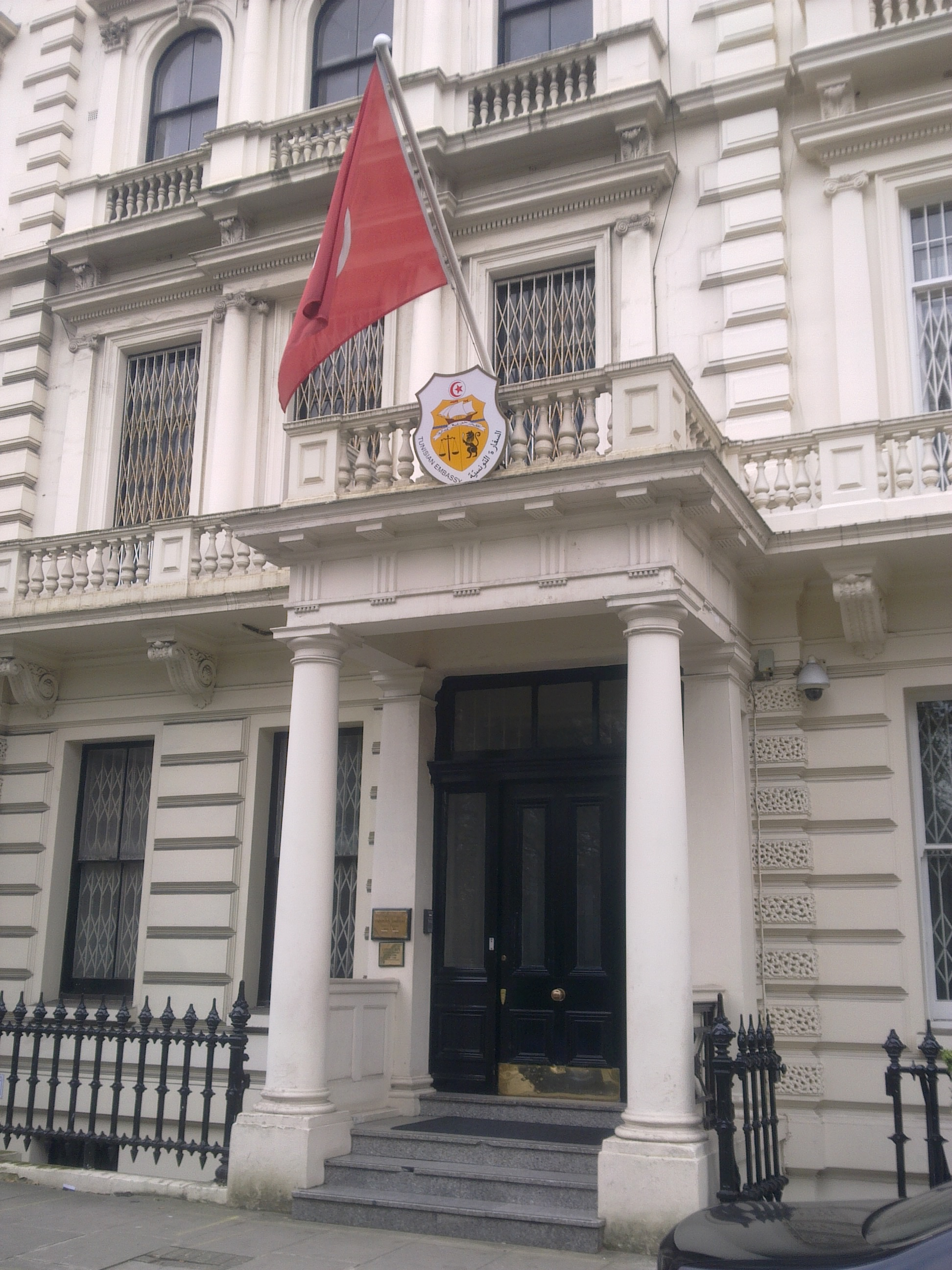 Facade of the embassy of Tunisia in London, United Kingdom